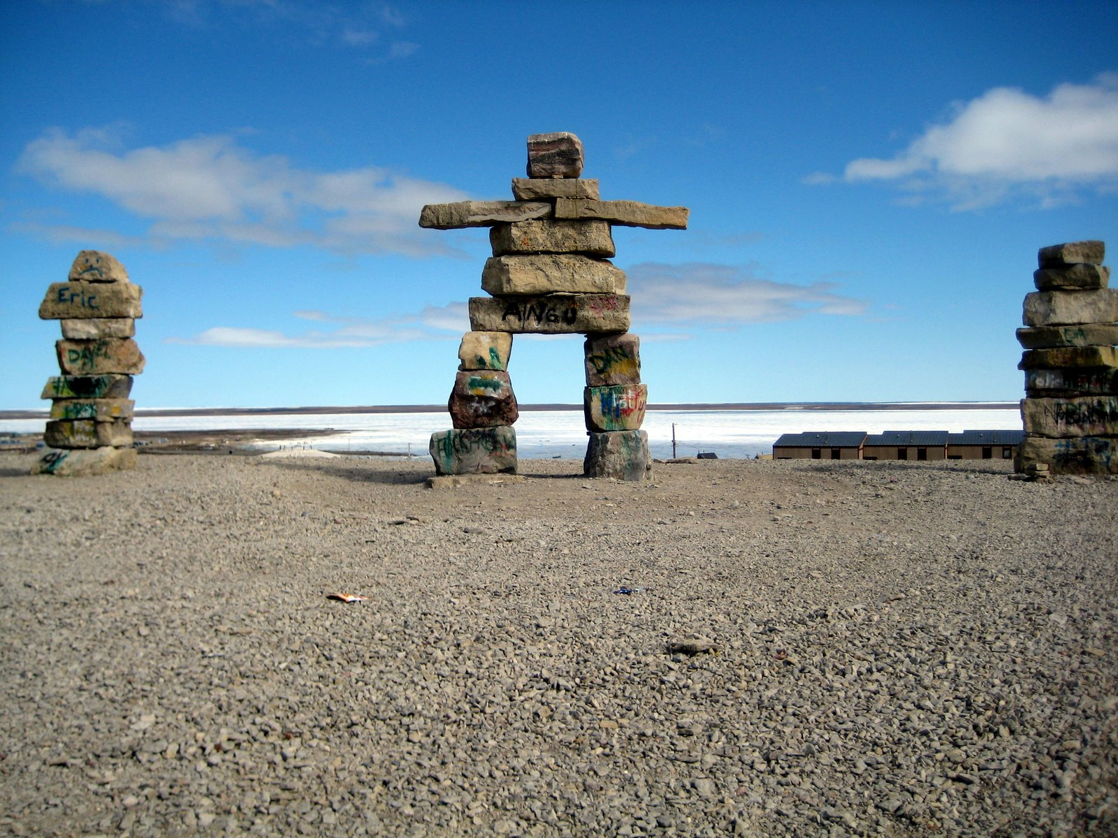 The largest inukshuk in Igloolik. Piles of stone resemble people at a distance to tell visitors that people have been here